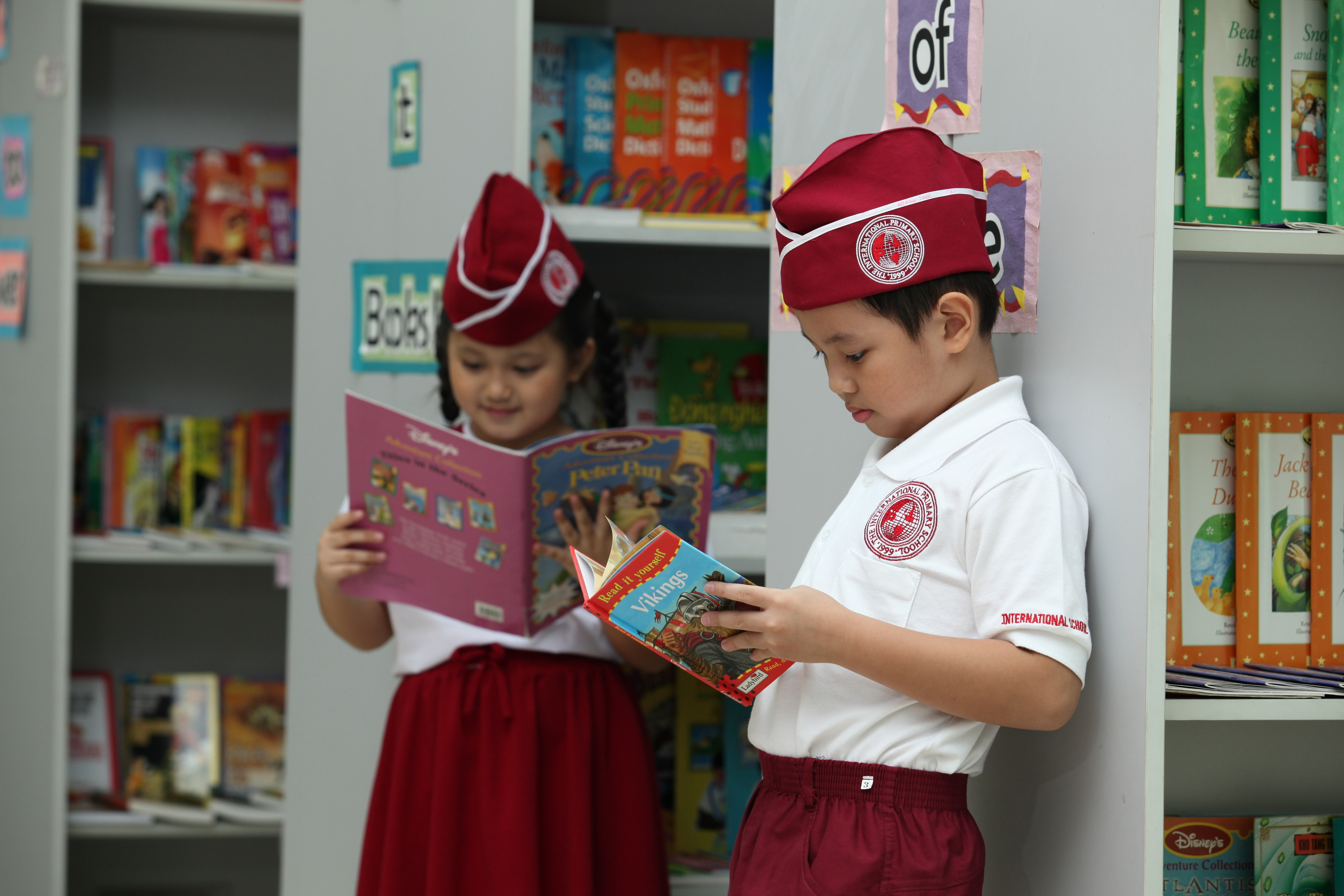 PICTURE STUDENT IPS